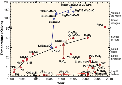 Progress in development of superconducting materials